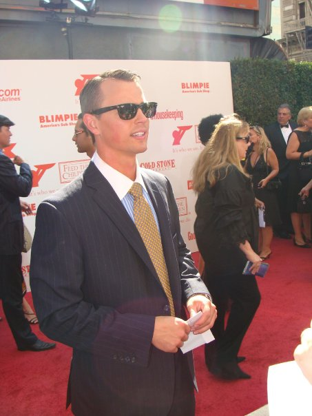 Actor Darin Brooks at Daytime Emmys Arrivals at Orpheum Theatre in Los Angeles, CA